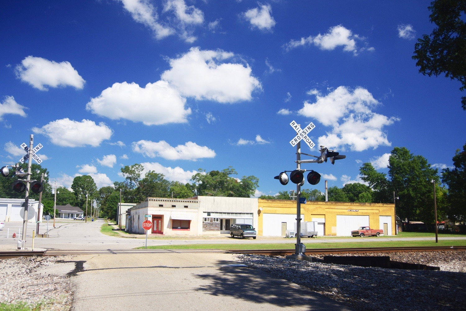 View along Locust Street in Hickory Flat, Mississippi, United States.